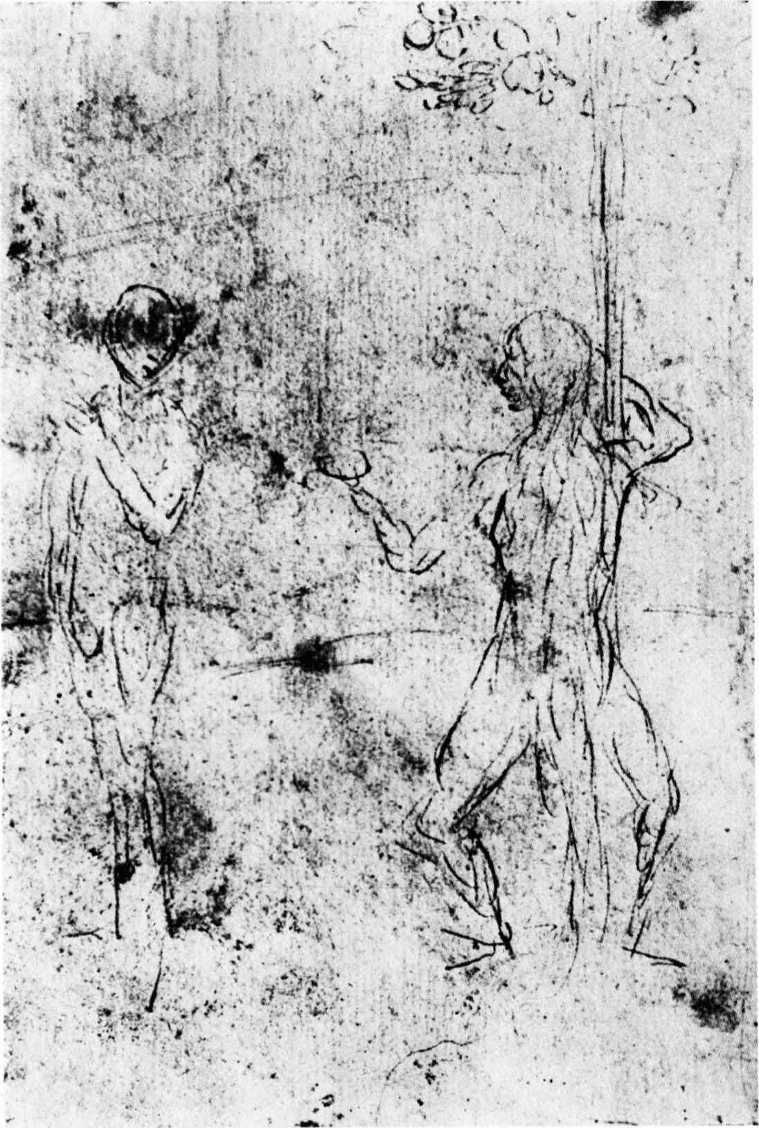 De verleiding van Eva door de slang. 13.3 × 10 cm. New York City, Lehmann Collection. Provenance: Le Roy Bacchus, Seattle Randall, Montreal 10 May 1961: anonymous sale at Sotheby's (auction house) Unknown date: acquired by Lehmann, New York City